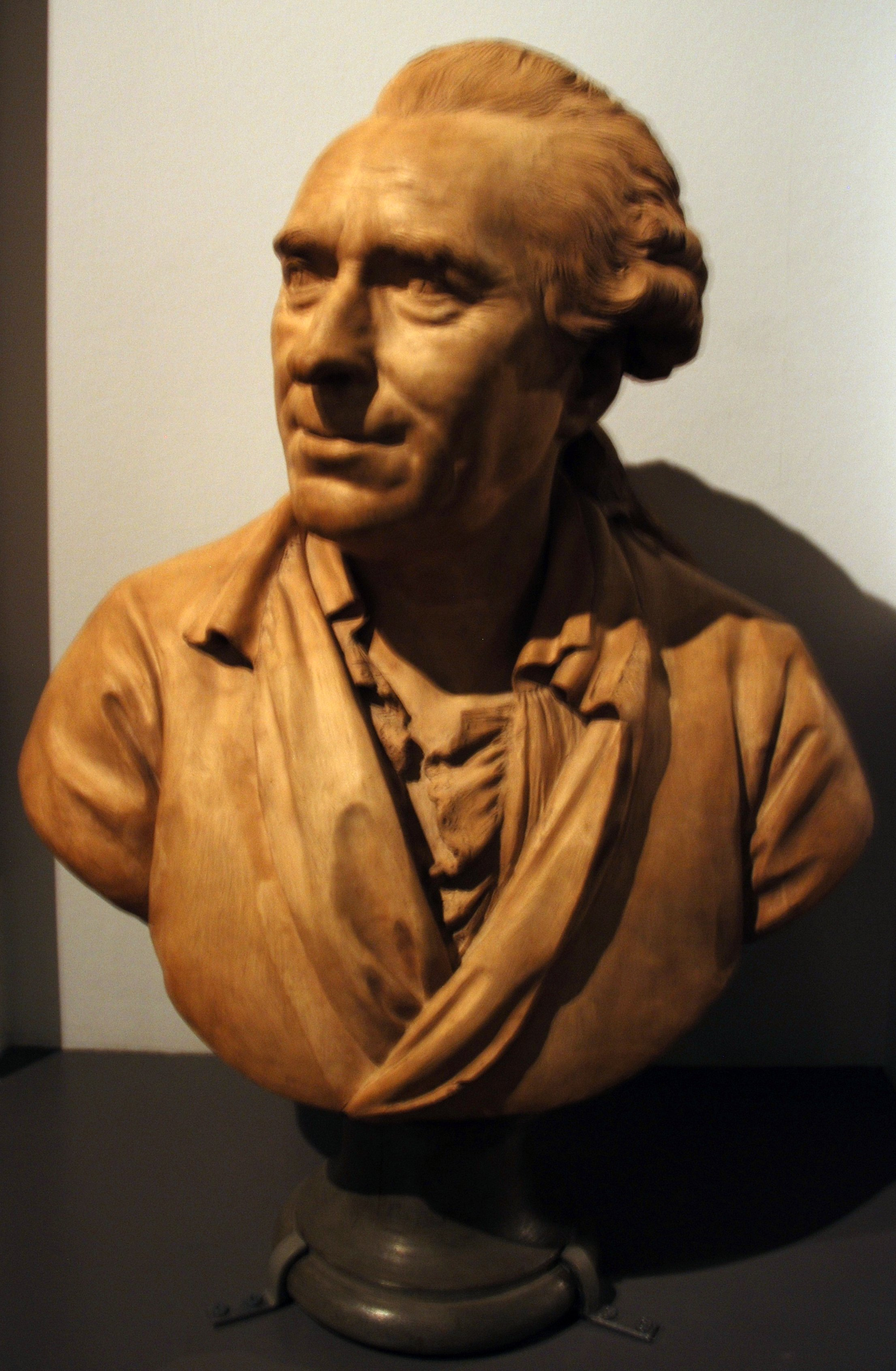 Bust of Michel-Jean Sédaine (1719 - 97) By Augustin Pajou (1730 - 1809) Terracotta French 1775 Museum no. A.27-1959 Bust of Michel-Jean Sedaine, 18th century French playwright. Bust shows a middle-aged man with receding but bushy hair. He wears contemporary loose shirt with a gown over it. He has a kindly, almost teasing face with laughter lines around the eyes & heavy brows. He looks out to his right. Wikipedia Loves Art at the Victoria and Albert Museum This photo of item # [1] at the Victoria and Albert Museum was contributed under the team name "drakr" as part of the Wikipedia Loves Art project in February 2009. Victoria and Albert Museum The original photograph on Flickr was taken by Niecieden—please add a comment to the original Flickr page whenever a use has been made on Wikipedia or another project. Project galleries on Flickr: this institution, this team